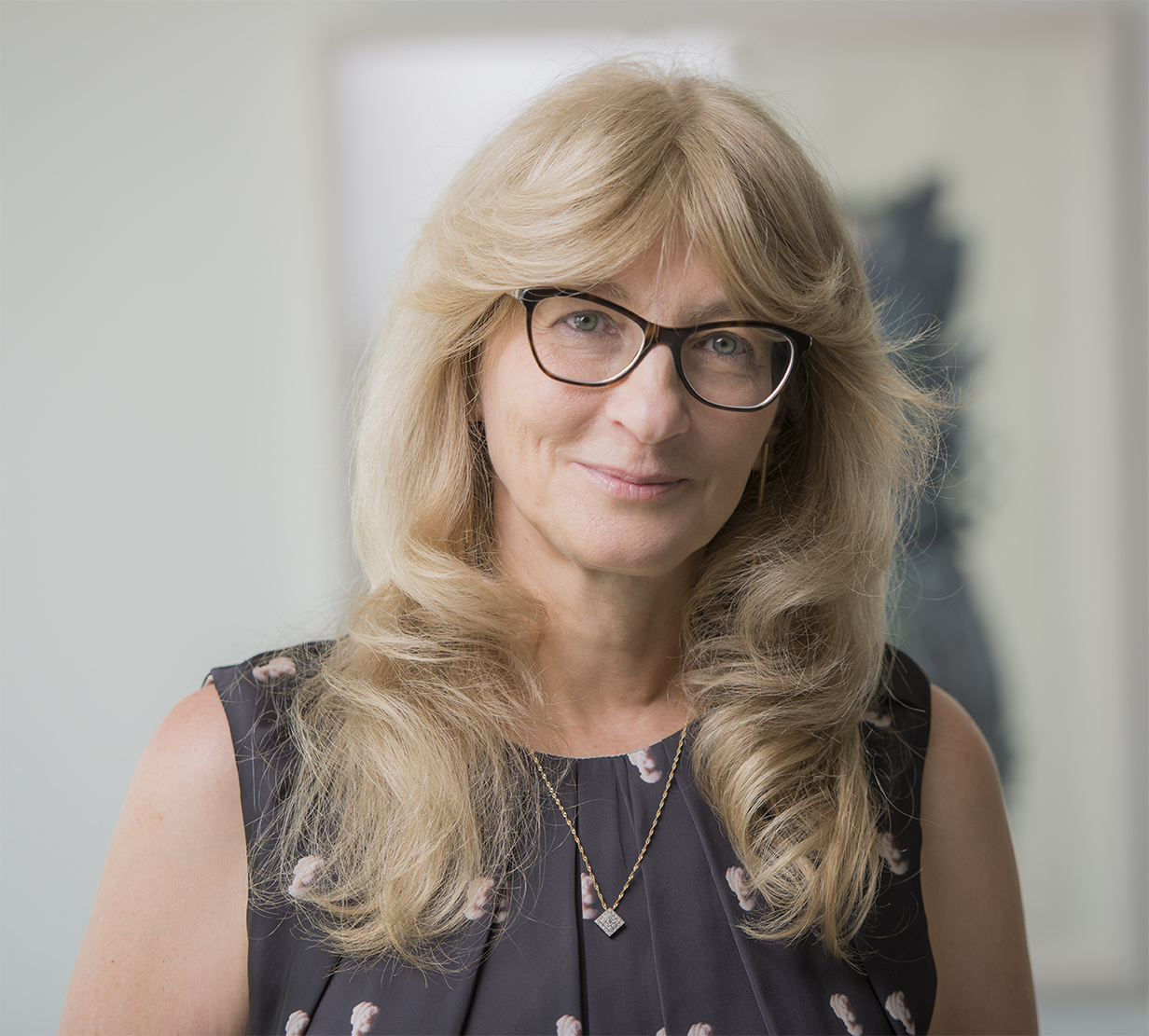 Shulamit Almog 2016